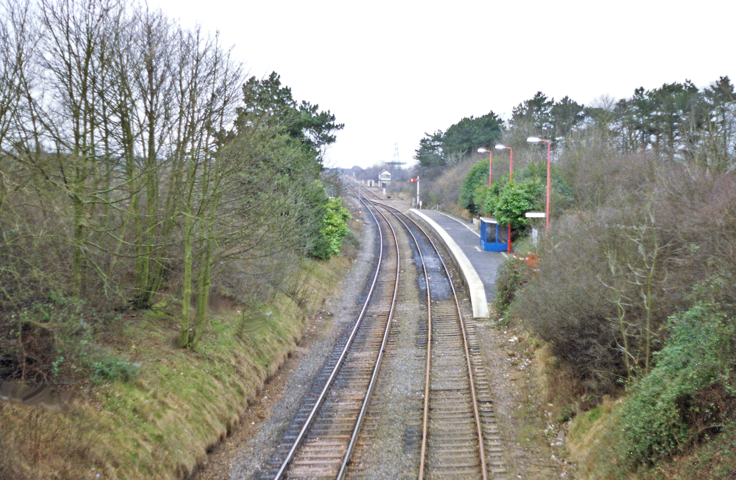 Corby station, as in 1990. View southward, towards Kettering, Bedford and London: ex-Midland (St Pancras) - Kettering - Melton Mowbray - Nottingham etc. main line. Named Corby & Weldon until 4/3/57 and closed 18/4/66. Kettering - Melton Mowbray - Leicester was closed to passenger traffic 6/6/66. Corby then had the distinction of being one of the three largest towns in Europe without a railway station, but the line remained opne for freight and for diversions, Glendon South Junction near Kettering - Corby as a single line. From 11/4/87 until 2/6/90 a DMU shuttle was run by the Corby Council to/from Kettering. In 2008 an entirely new station was built at Corby and from 23/2/09 a regular service has ben run by East Midlands Trains to London St Pancras, with limited services to Oakham and Melton Mowbray. The photograph shows the single Down side platform of the 'minimal' station in 1990.